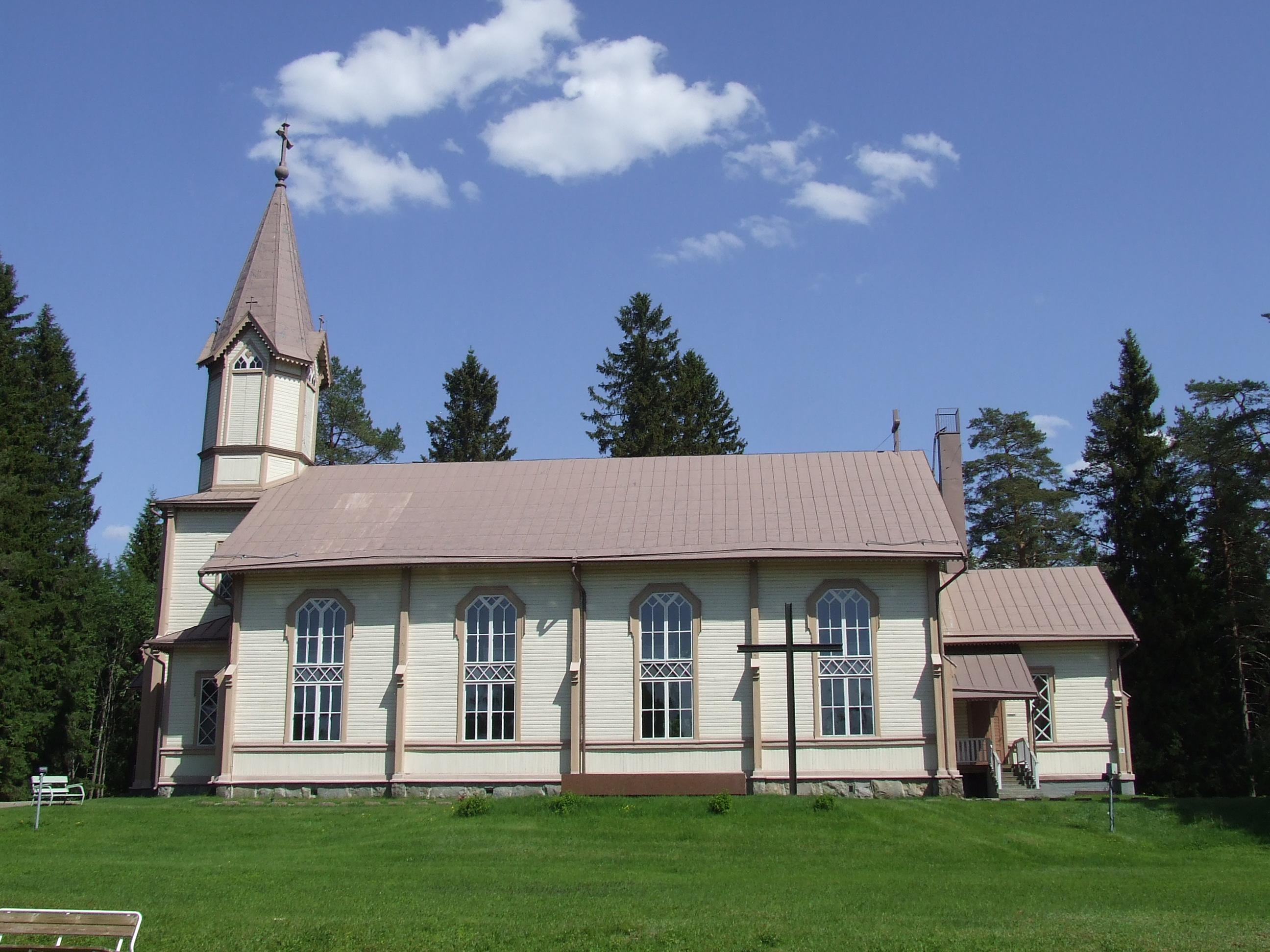 Tuupovaara church in Joensuu, Finland.